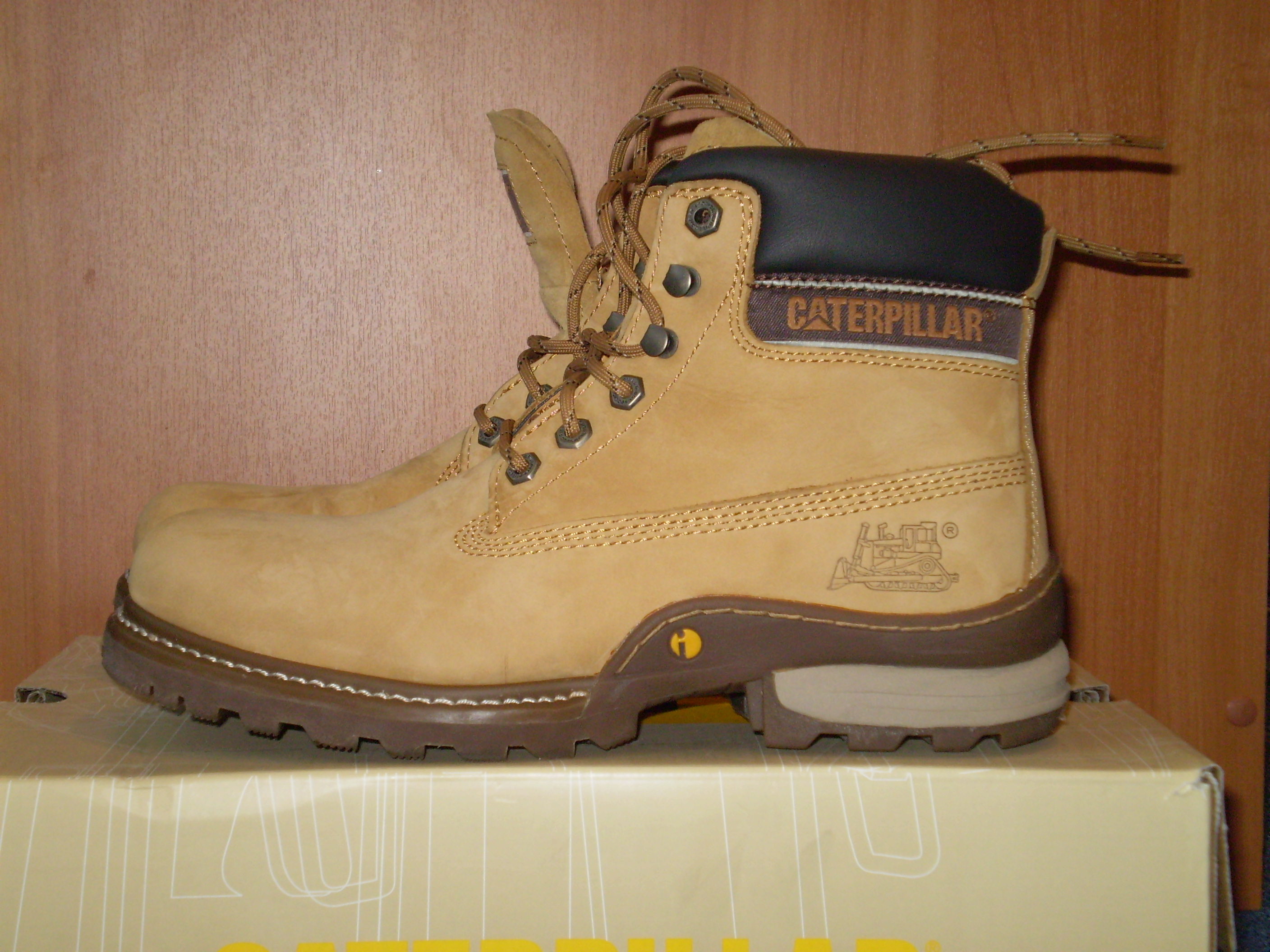 A Caterpillar Inc.-brand work boot manufactured by Wolverine World Wide.